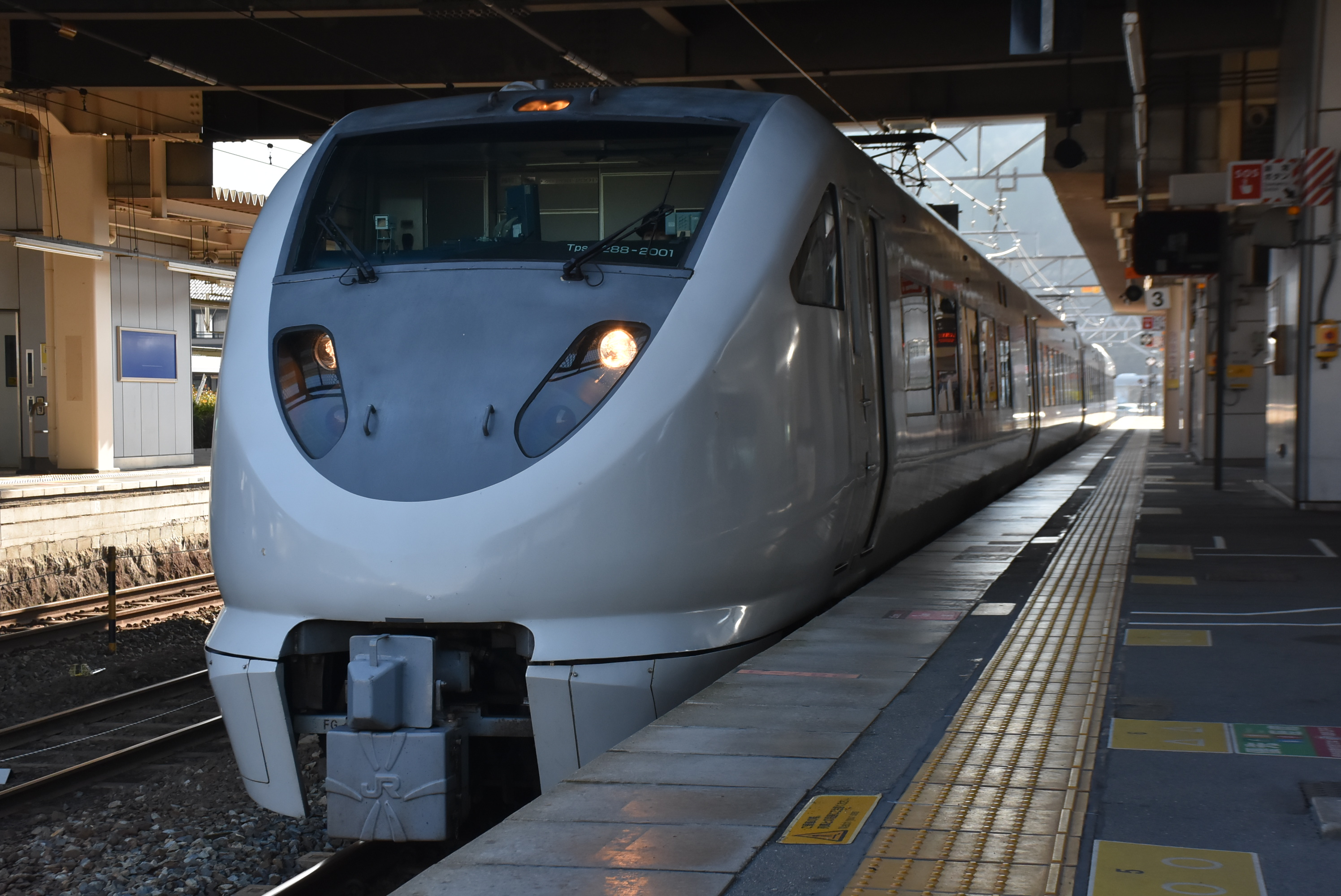 A JR West 289 series EMU at Sasayamaguchi Station on a Kounotori limited express service